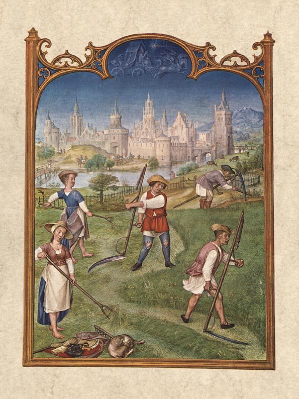 Juni, Brevarium Grimani, fol. 7v (Flemish)